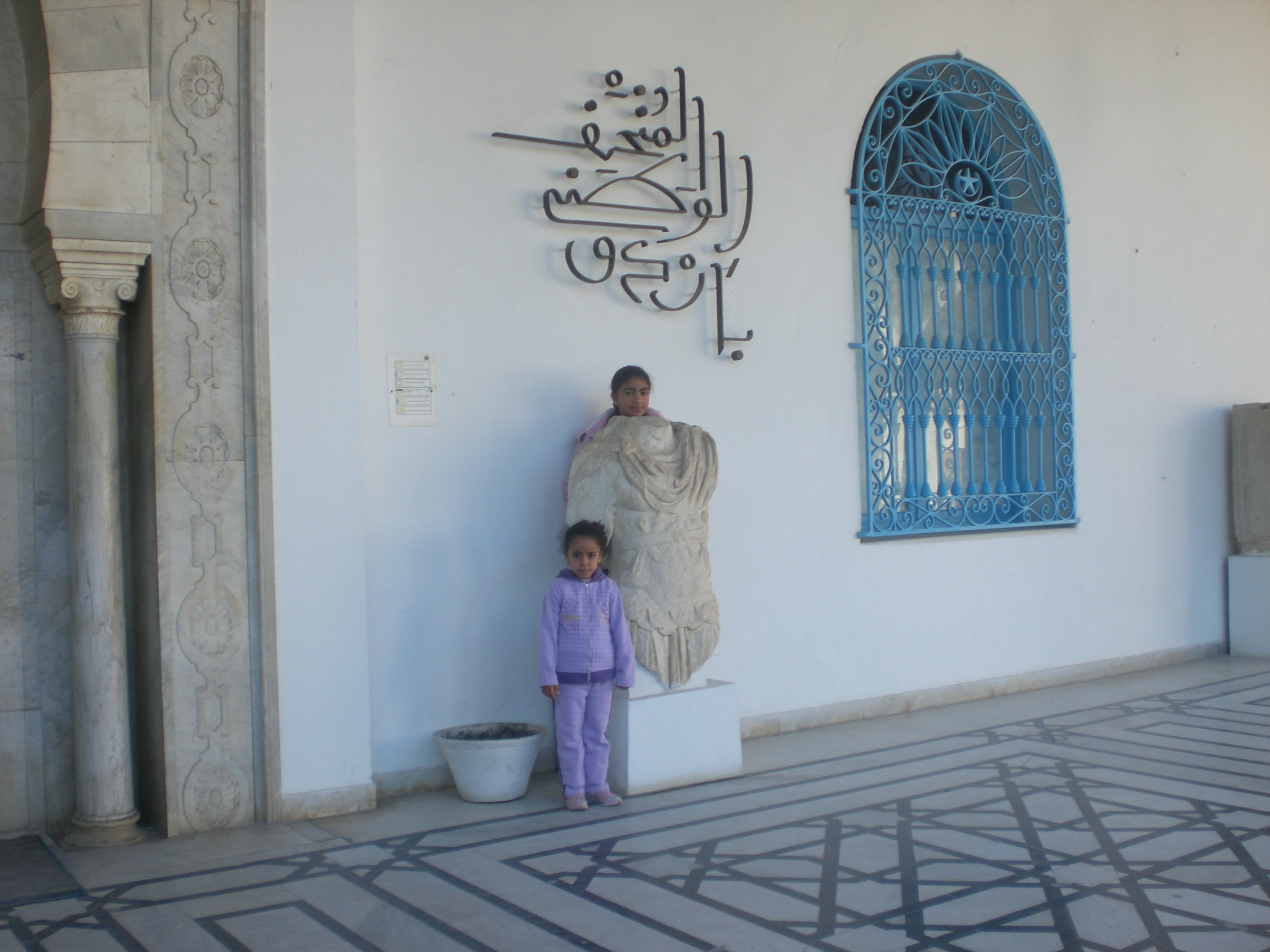 The Museum of Bardo-Tunis